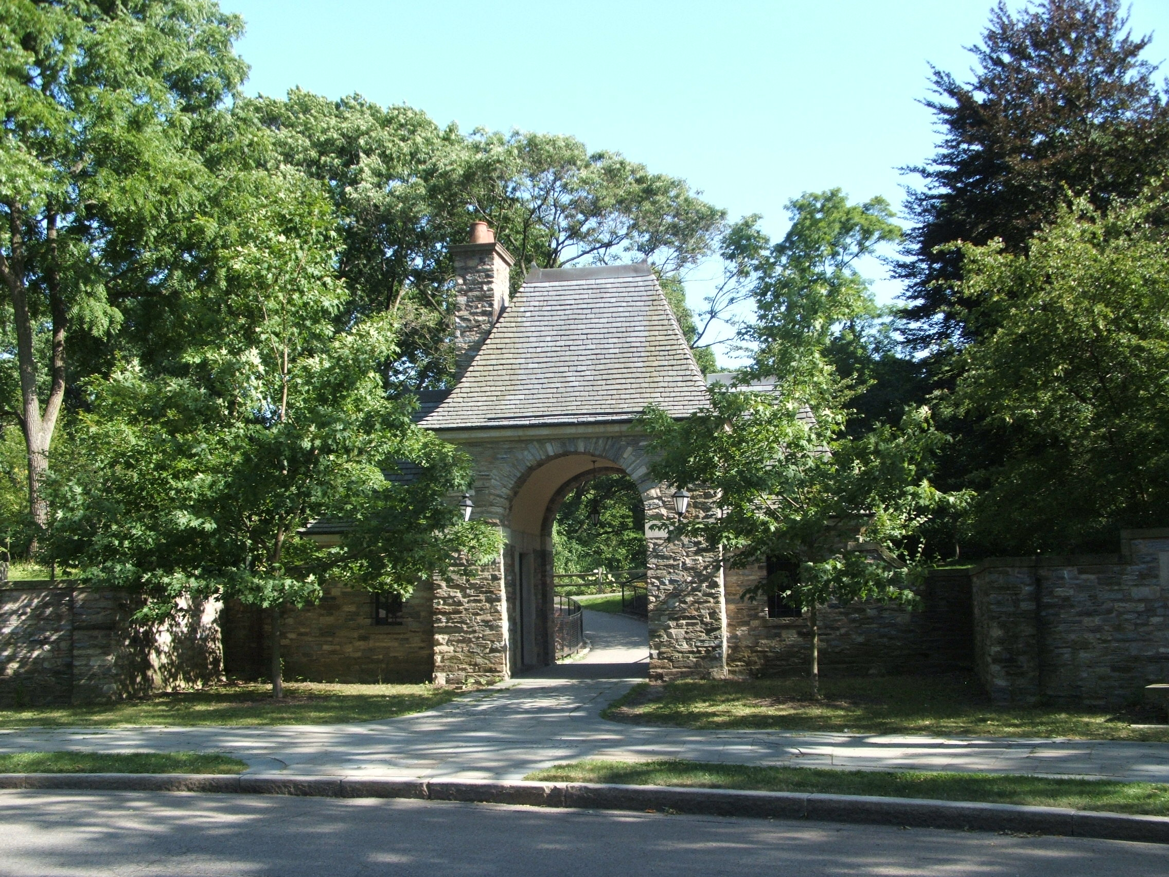 Frick Park, Pittsburgh. Stone Gatehouse, Frick Park, Pittsburgh, PA, USA., Pittsburgh.